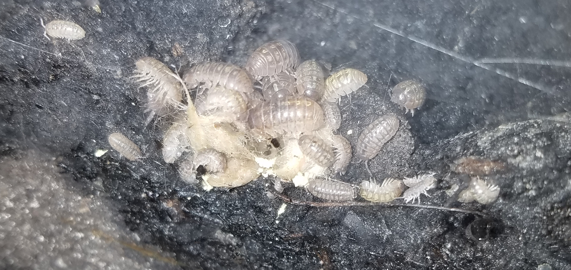 Isopods eat snake feces in a bioactive terrarium